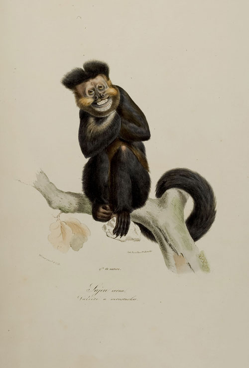 Tufted capuchin draw. Probably, it's a female showing chest rubbing and grin: it's a kind of proceptive behavior in females capuchins when they're in estrus.